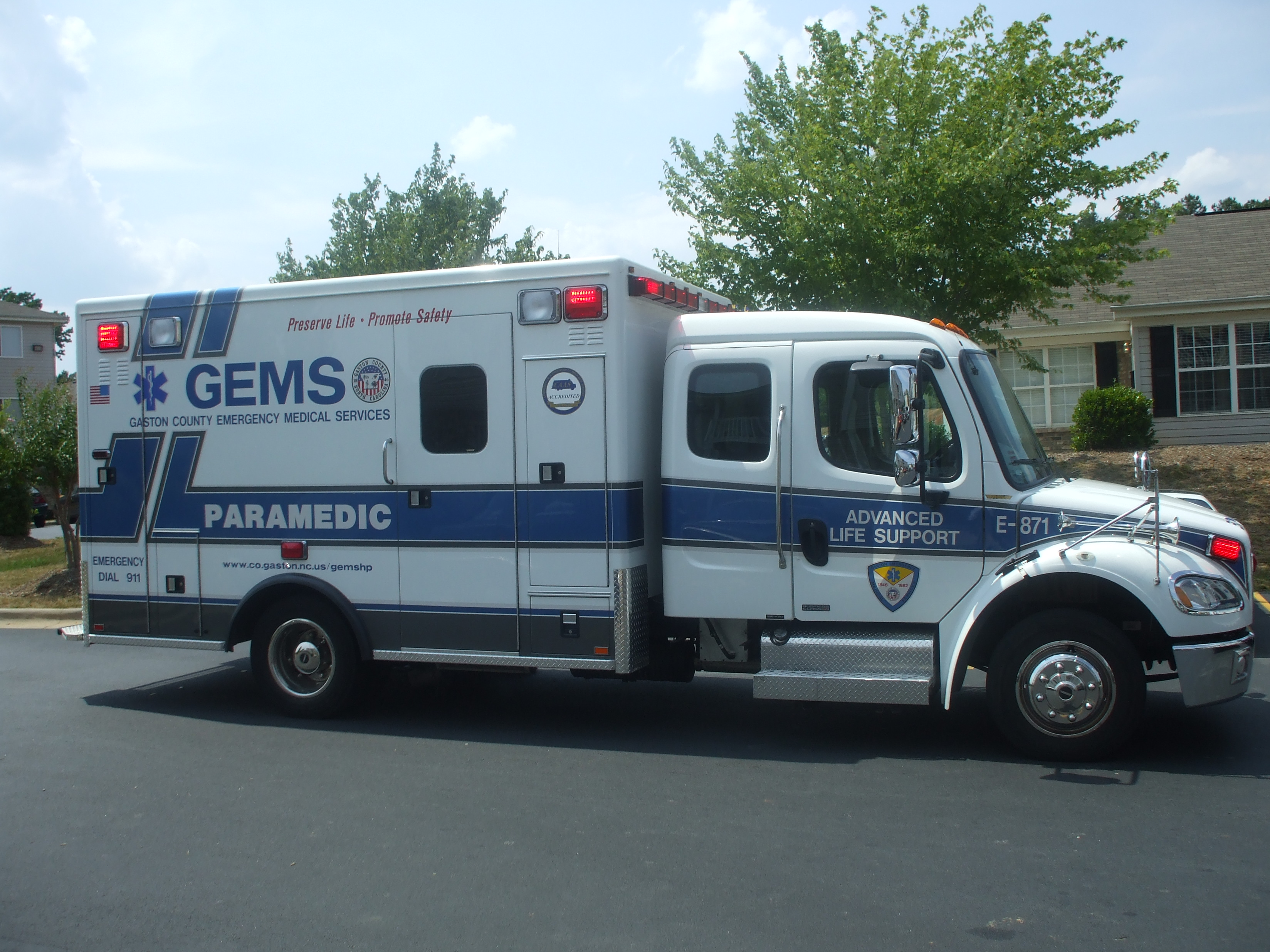 Gaston County EMS at an emergency